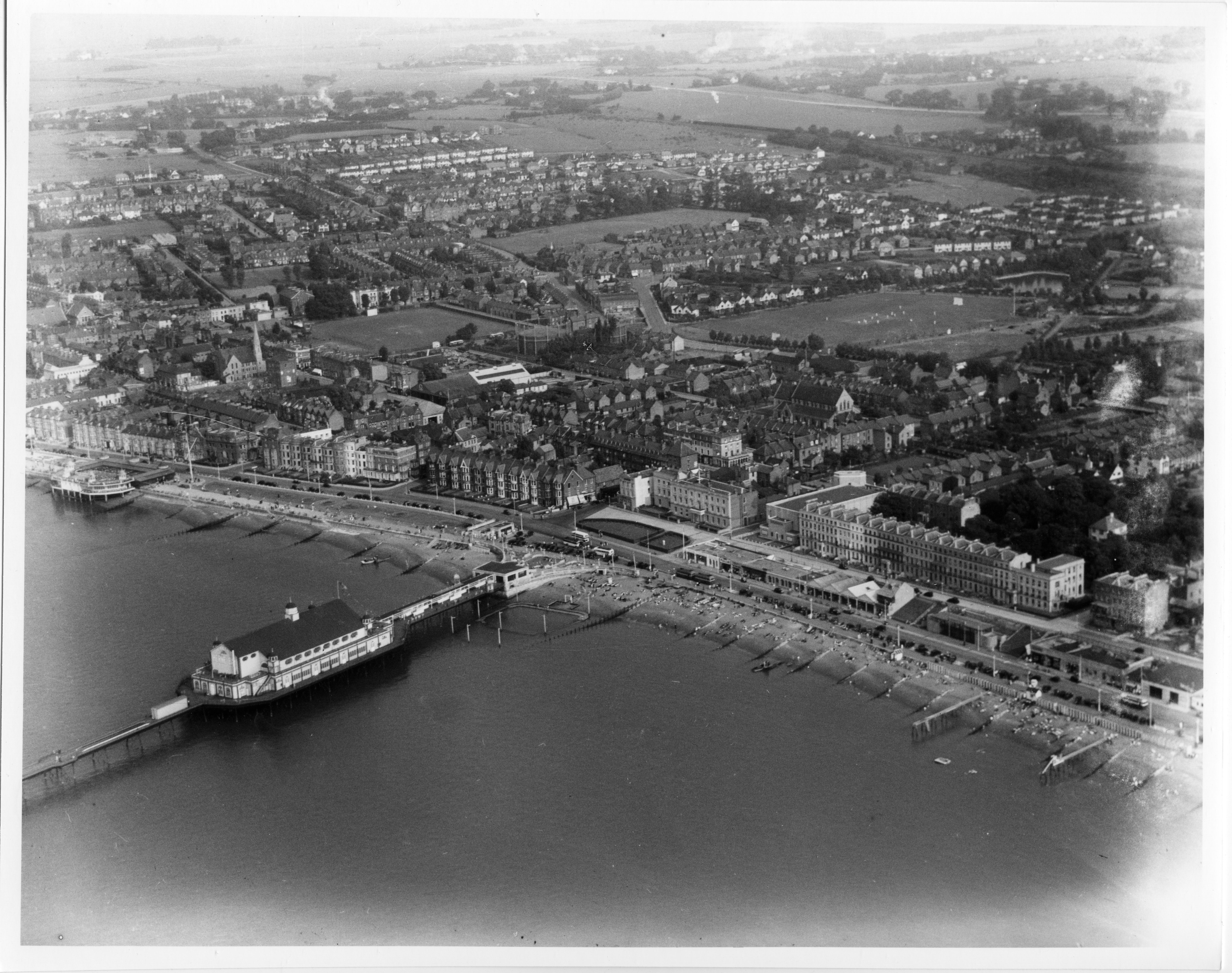 Aerial photograph of Herne Bay Pier, 1937. Compare with postcard photo of pier, taken in the same year: File:3rd Herne Bay Pier 1937 016.jpg